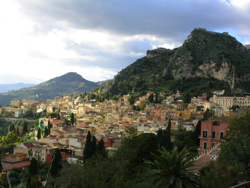 View from the Greek theatre in Taormina, Italia